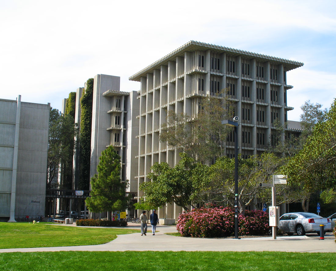 Muir College